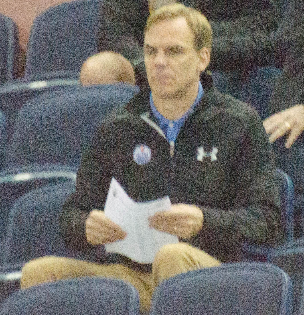 Scott Howson at the 2015 Edmonton Oilers Development Camp, July 4, 2015.